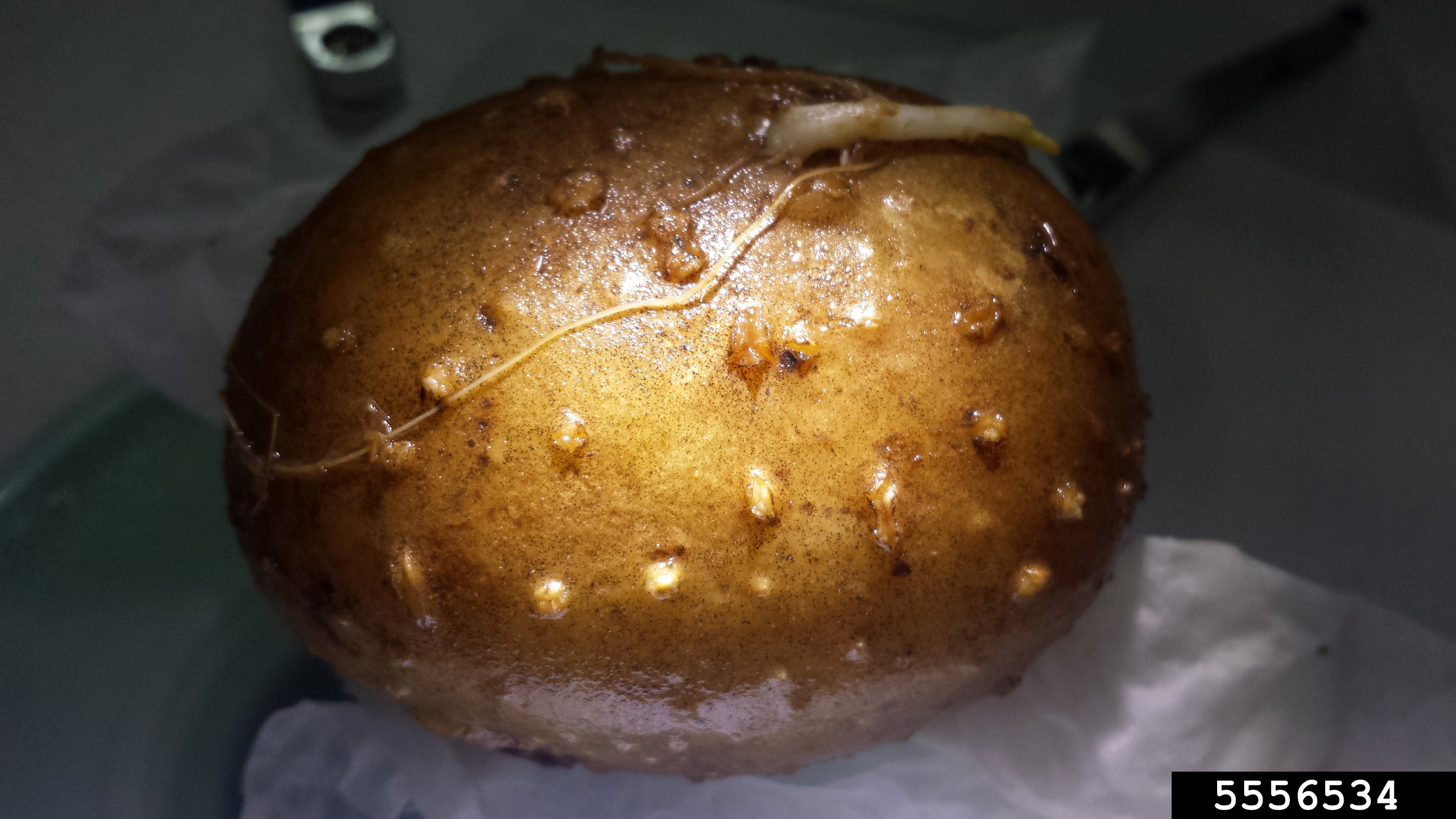 Meloidogyne spp. at Solanum tuberosum